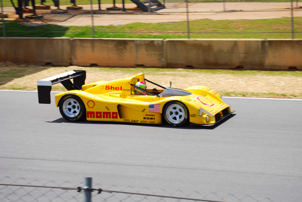 A Ferrari 333 SP at Road Atlanta